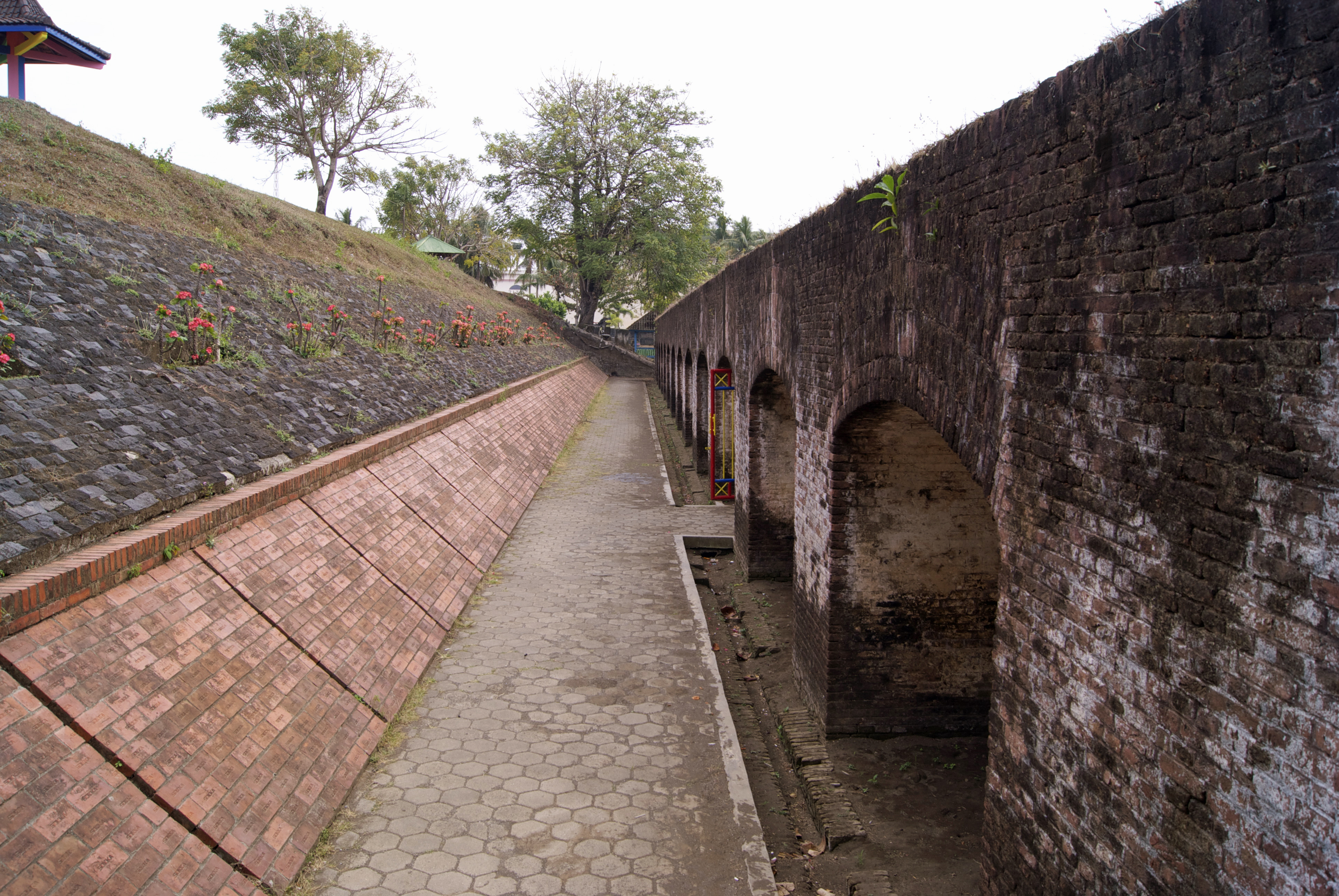 Dutch fortress Benteng Pendem, built 1861-1879 by Dutch East Indies Army.